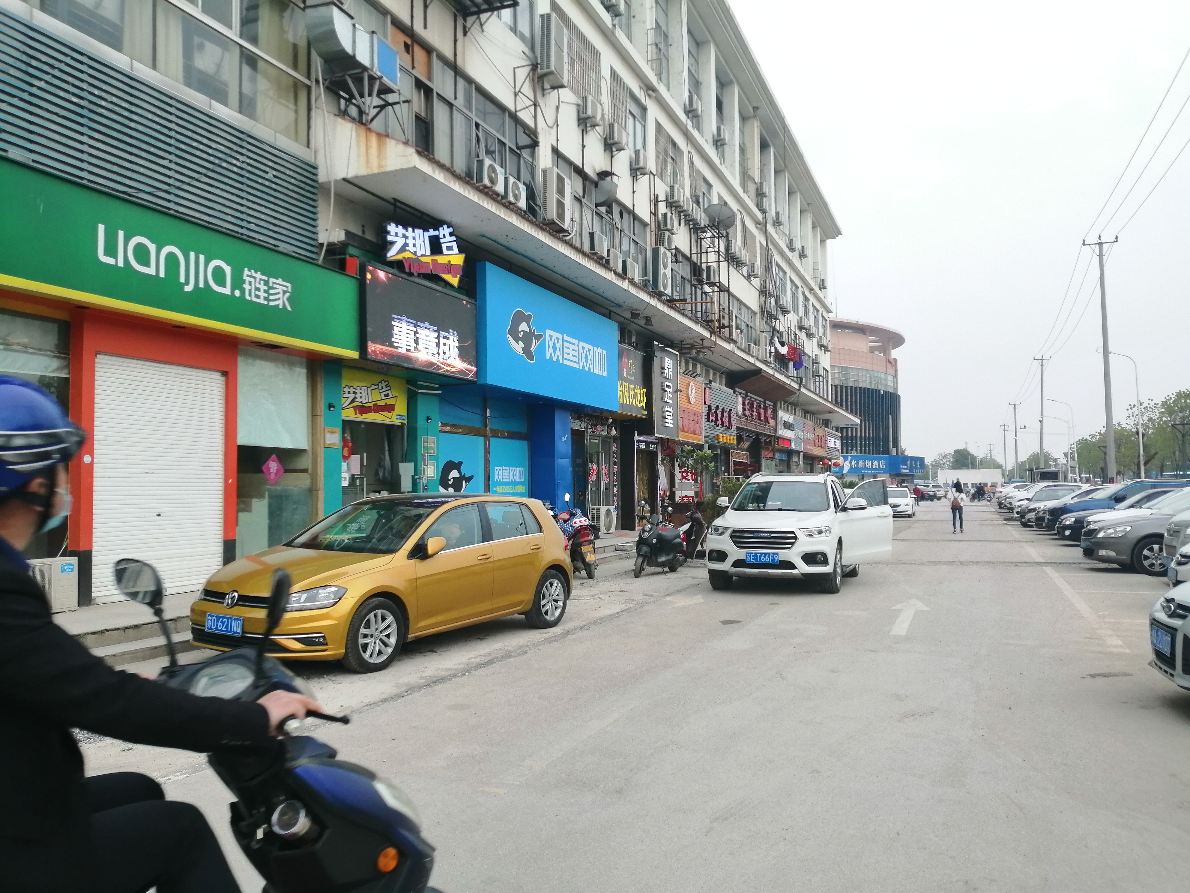 A Wangyu Net Cafe, the first chain net cafe of China, located at Lianfeng Square, Xietang, Suzhou. 中文（中国大陆）: 位于苏州市工业园区斜塘街道联丰广场的网鱼网咖